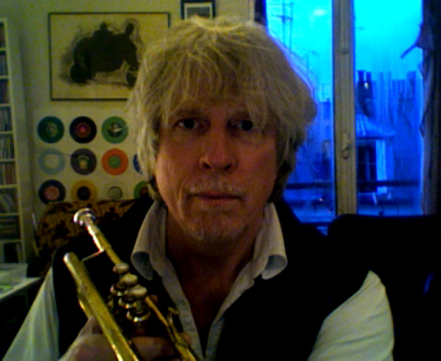 A self-portrait photograph by and of Rhys Chatham.